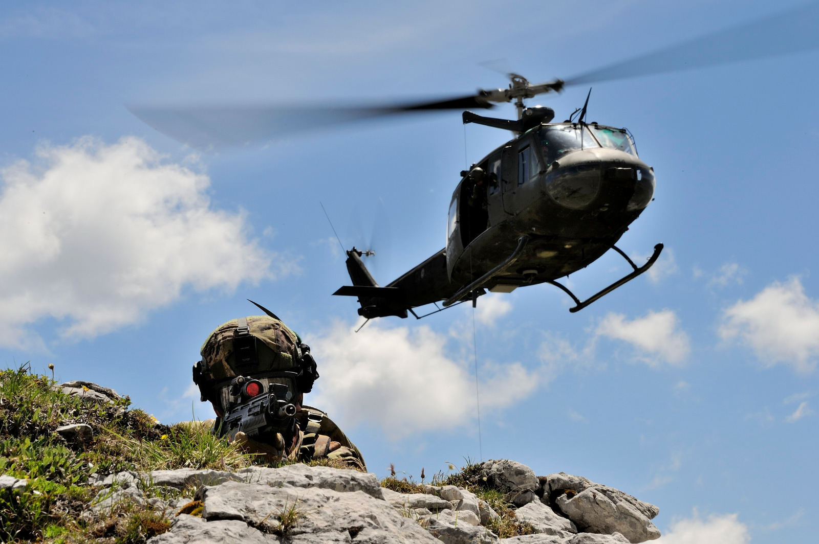 Italian Army an Alpini soldier guards a landing zone as a 4th Army Aviation Regiment "Altair" AB-205 helicopter flies overhead during the exercise Lavaredo 2019 in the Dolomites